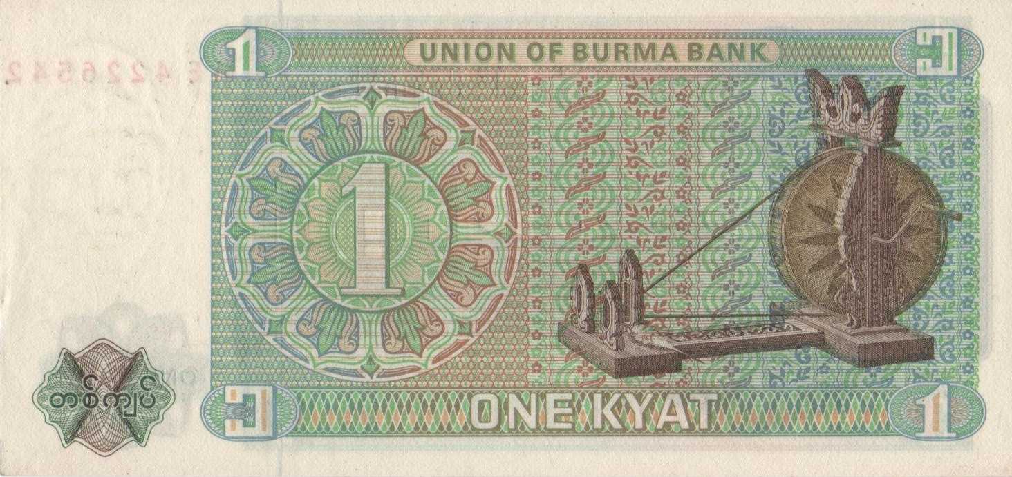 1 kyat